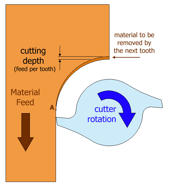 Diagram of conventional milling, showing material to be cut by next tooth.